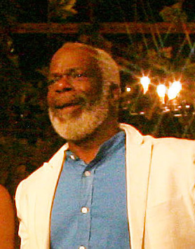 Lakeside Theatre worked in association with the world renowned Shakespeare’s Globe Theatre to stage the premiere of Omeros by Nobel Laureate Derek Walcott starring Joseph Marcell and Jade Anouka.